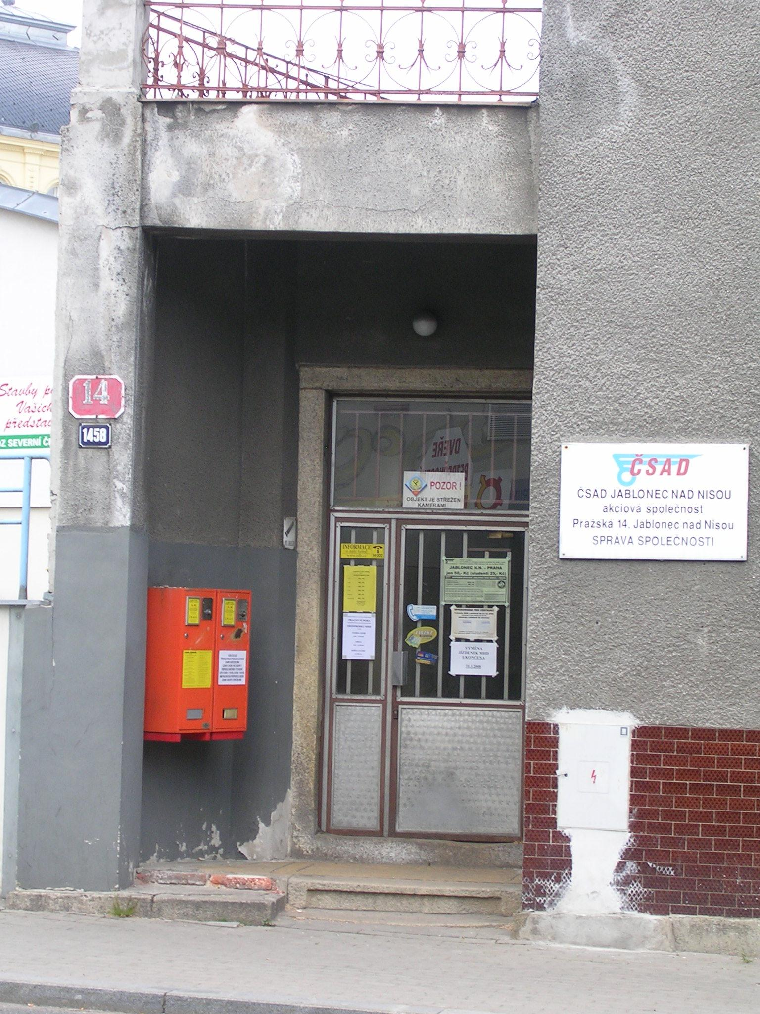 Jablonec nad Nisou. The Czech Republic. Building of transport company ČSAD Jablonec nad Nisou a. s. “Merona” ticket machines.